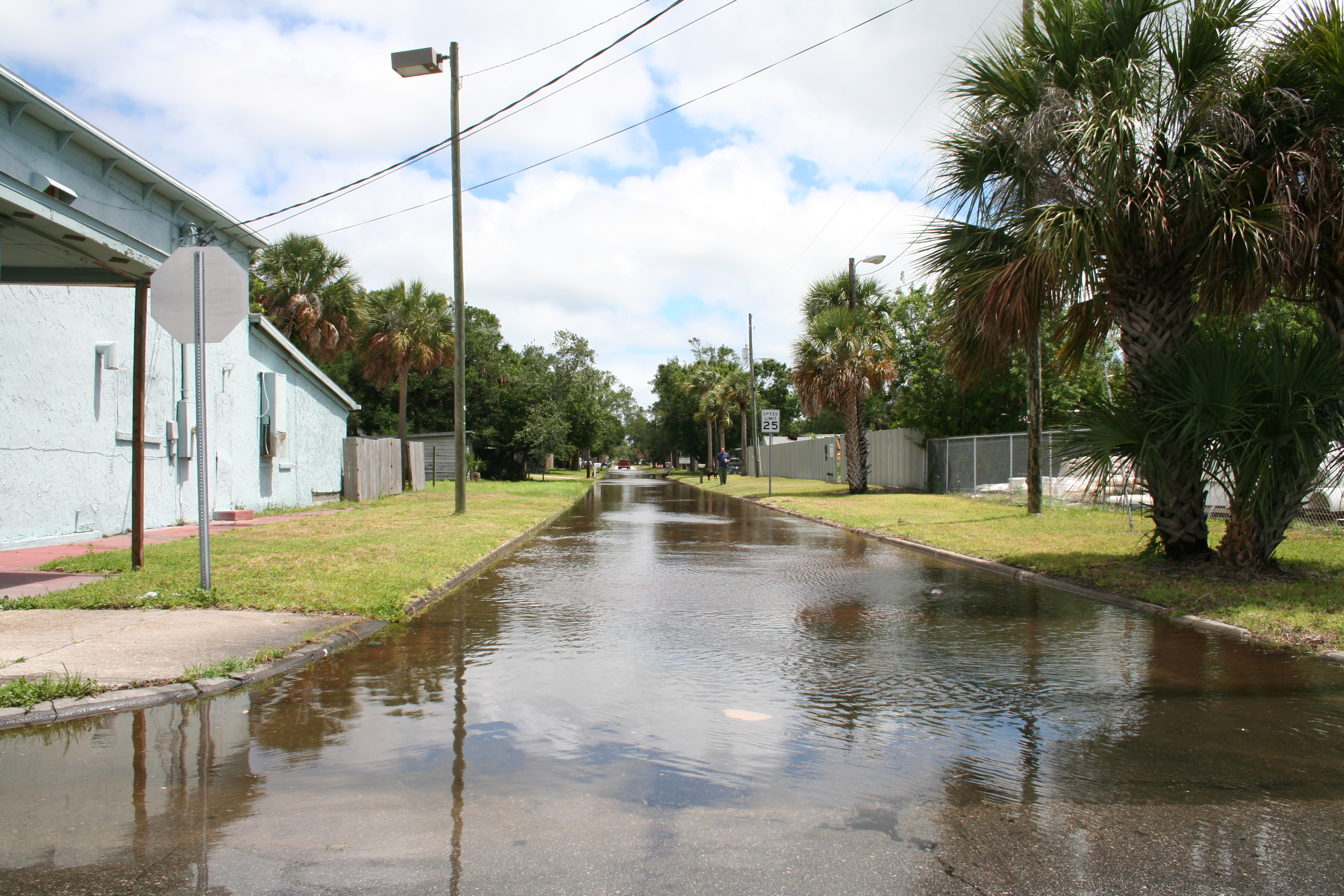 My street during high tide.